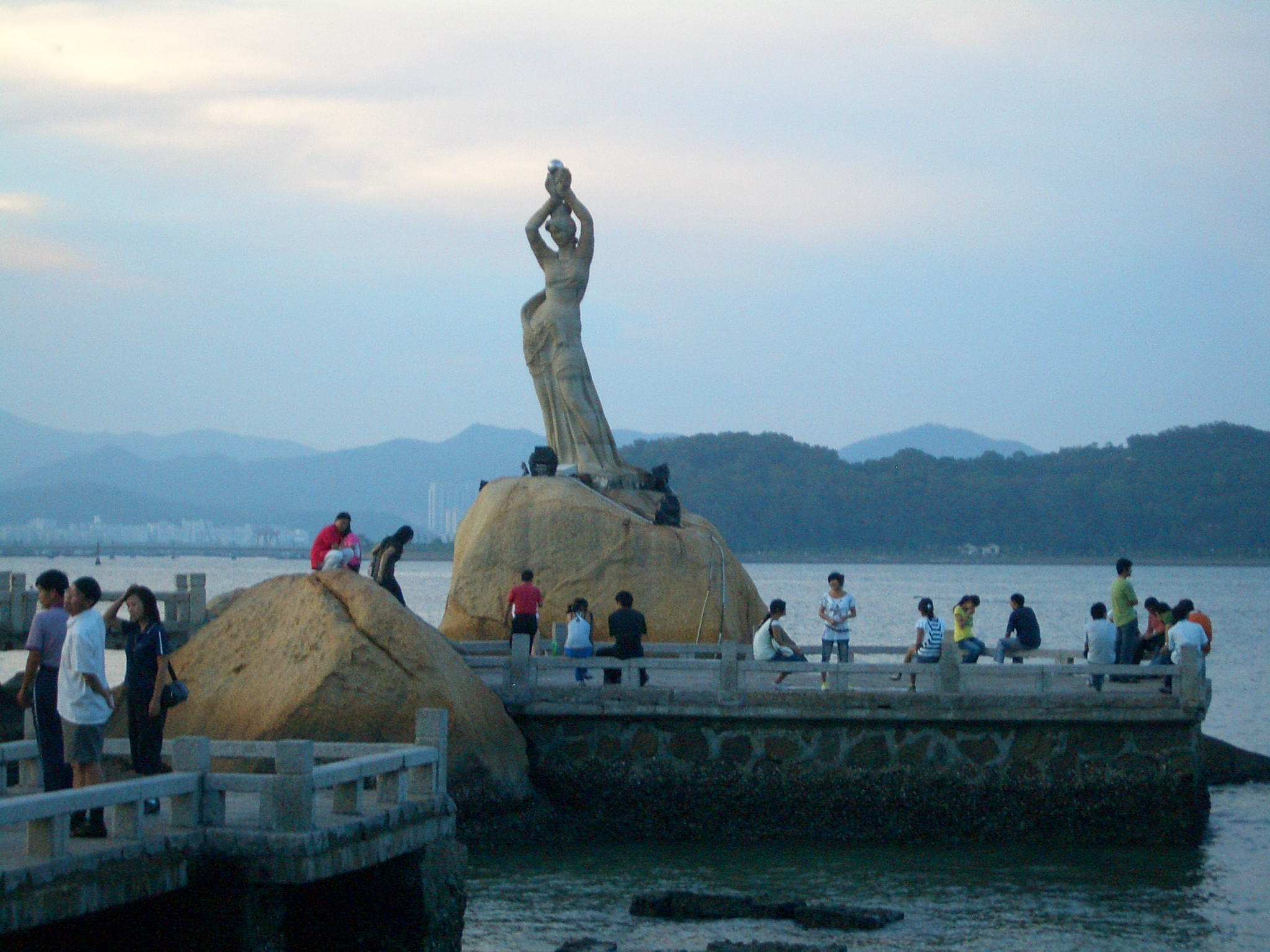 The "Fisher Girl" (渔女) statue in Zhuhai - the emblem of the city